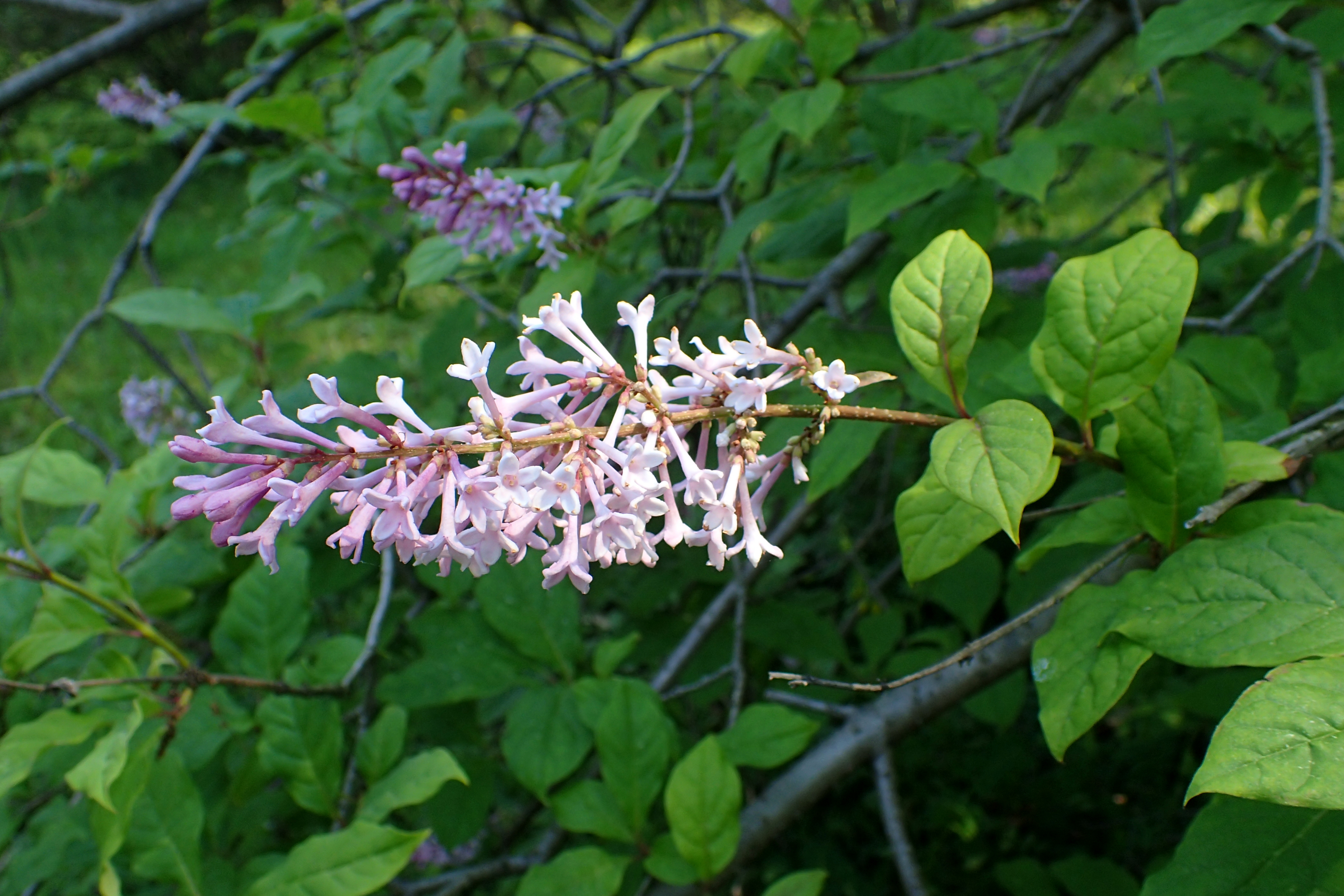 Syringa wolfii in the Botanischer Garten, Berlin-Dahlem